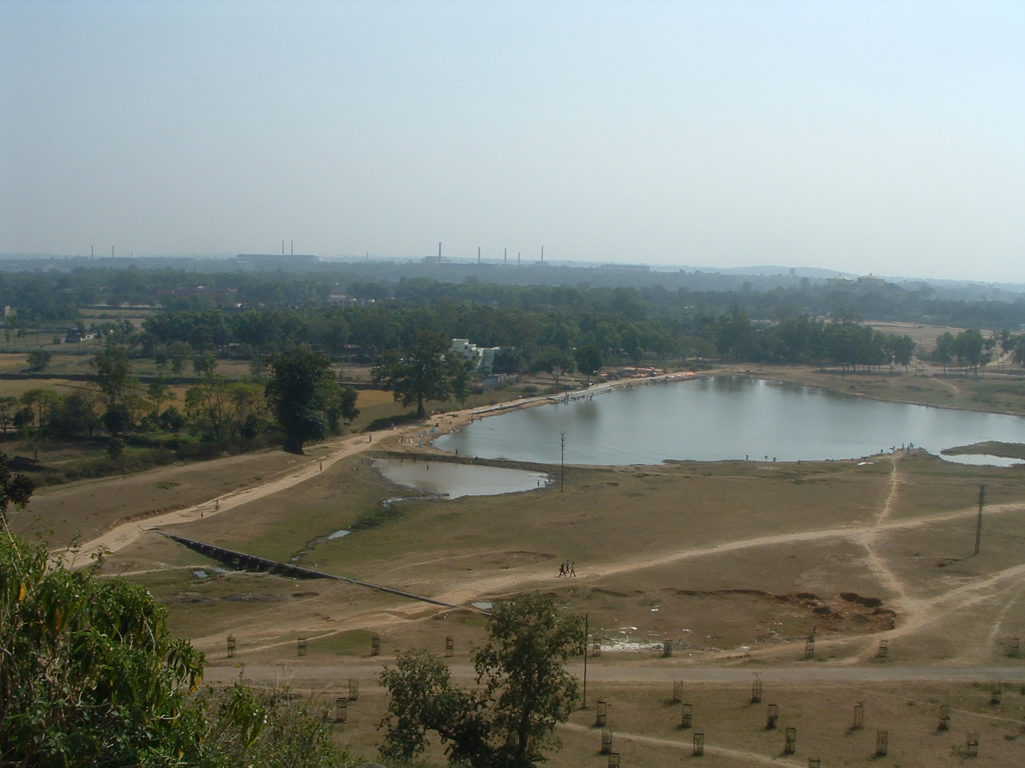 A breathtaking view of HEC Colony from Jagannathpur Temple.